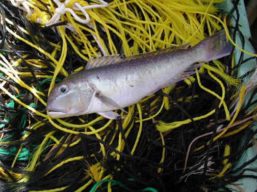 Great Northern Tilefish (Lopholatilus chamaeleonticeps) . Image from NOAA's Northeast Fisheries Science Center.